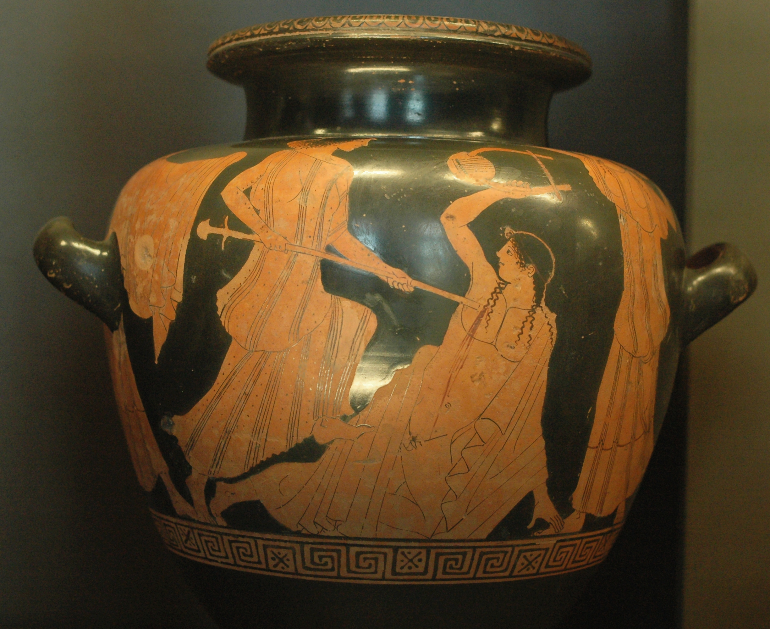 Orpheus' death. Attic red-figure stamnos.